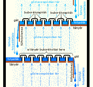 Hungarian version of Image:Bubble Cap Trays.PNG. Cross-sectional diagram showing two Trays with Bubble caps in a section of an operating industrial distillation tower.